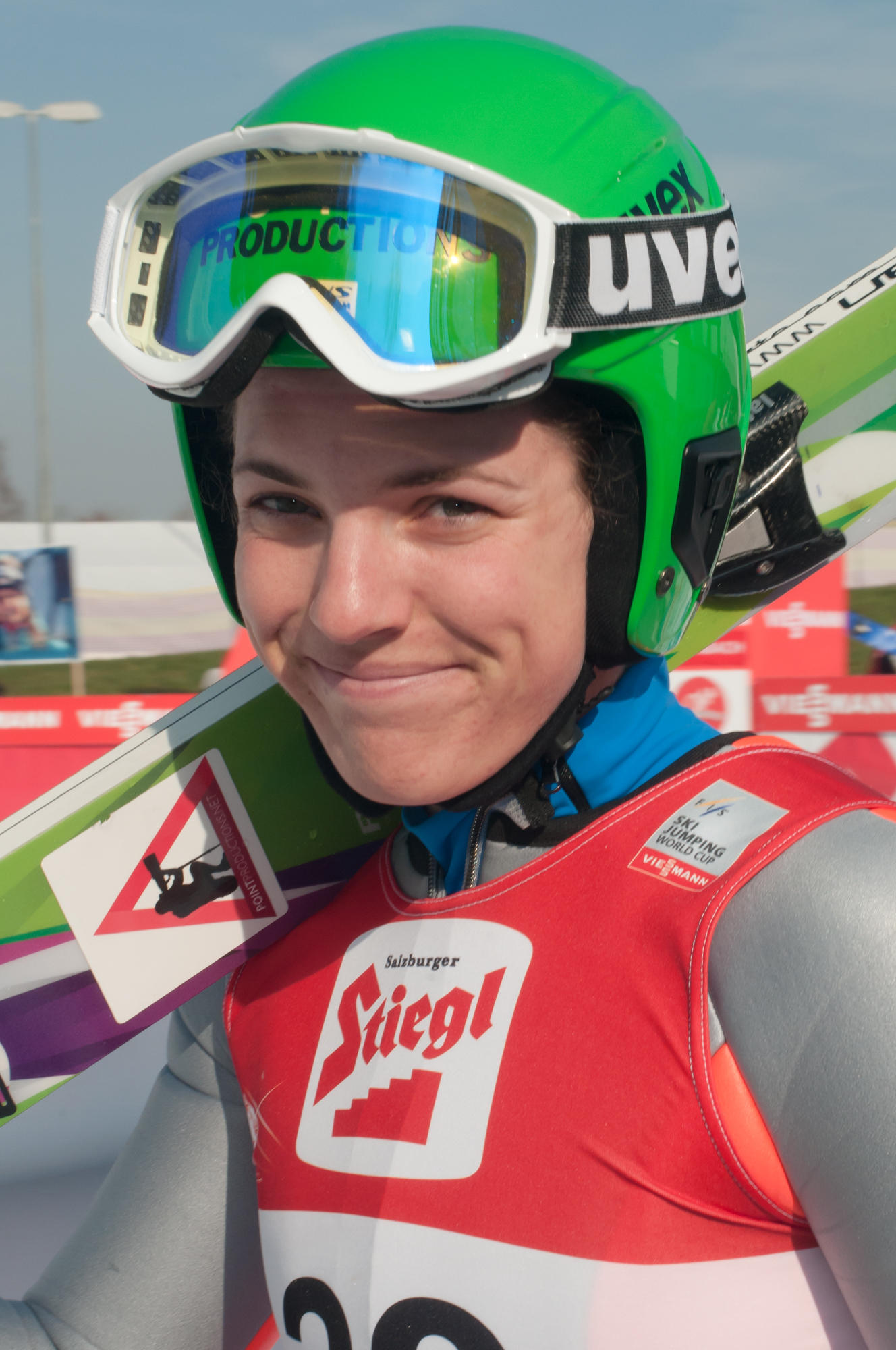 FIS Ski Jumping World Cup Ladies Hinzenbach 2016-02-07